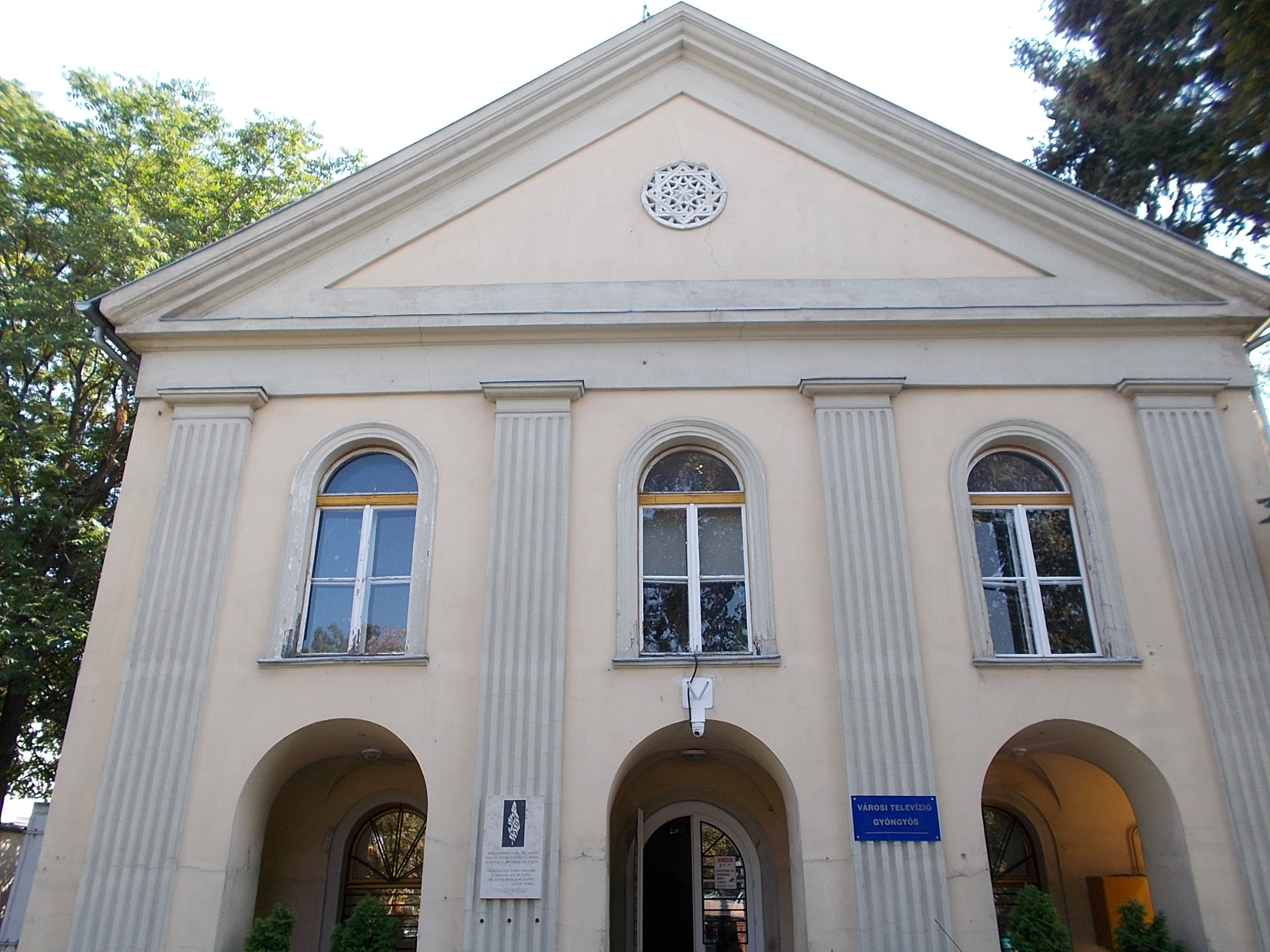 Gyöngyös City Television building. Former synagogue. Listed ID 5670. - Eszperantó St., Gyöngyös, Heves County, Hungary